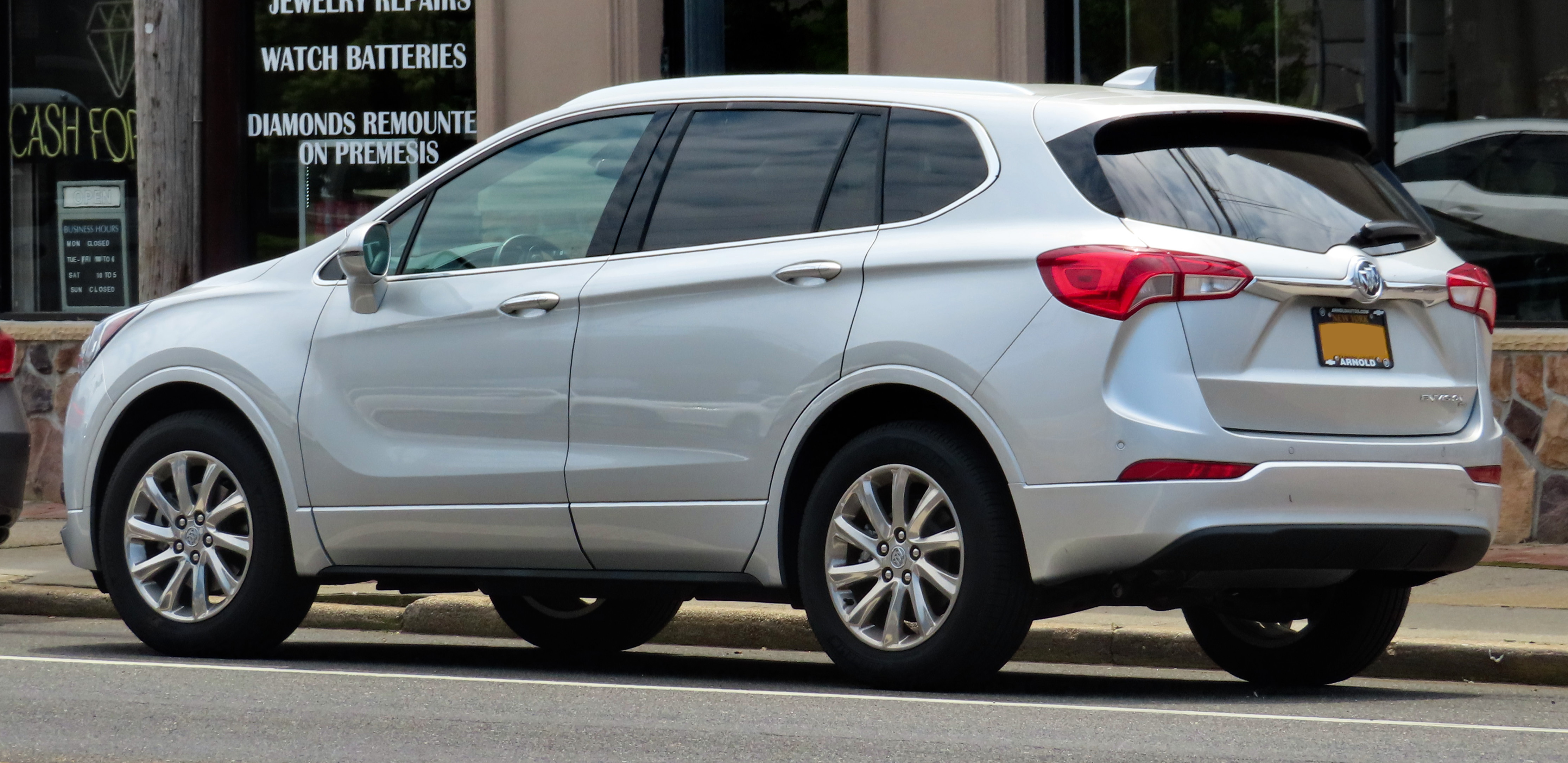 A 2019 Buick Envision facelift photographed in Lindenhurst, New York, USA